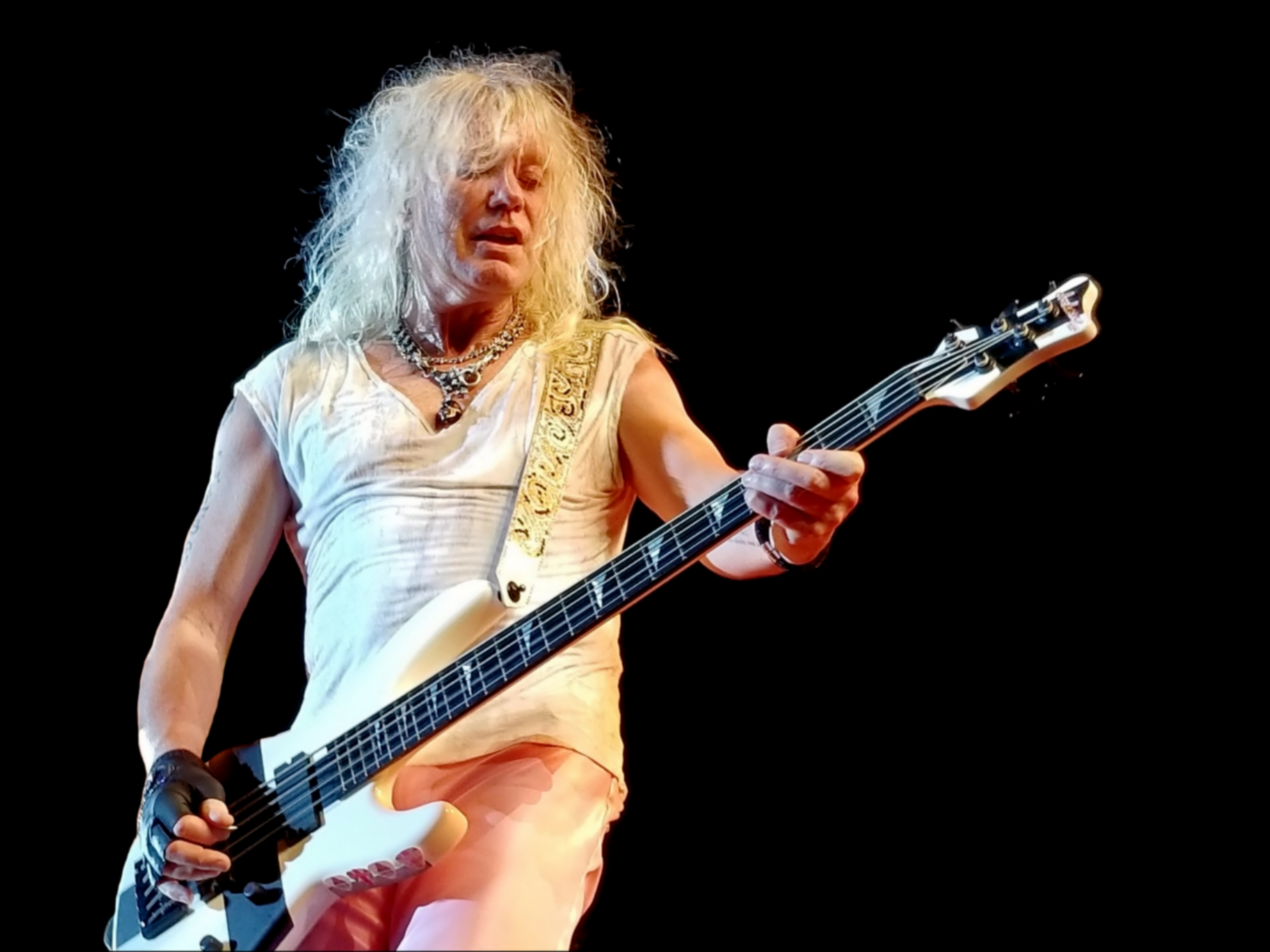 Rick Savage performing with Def Leppard in Denver, CO in July 2018